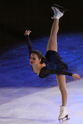 Sasha Cohen at the 2009 Stars on Ice show in Halifax, Nova Scotia.